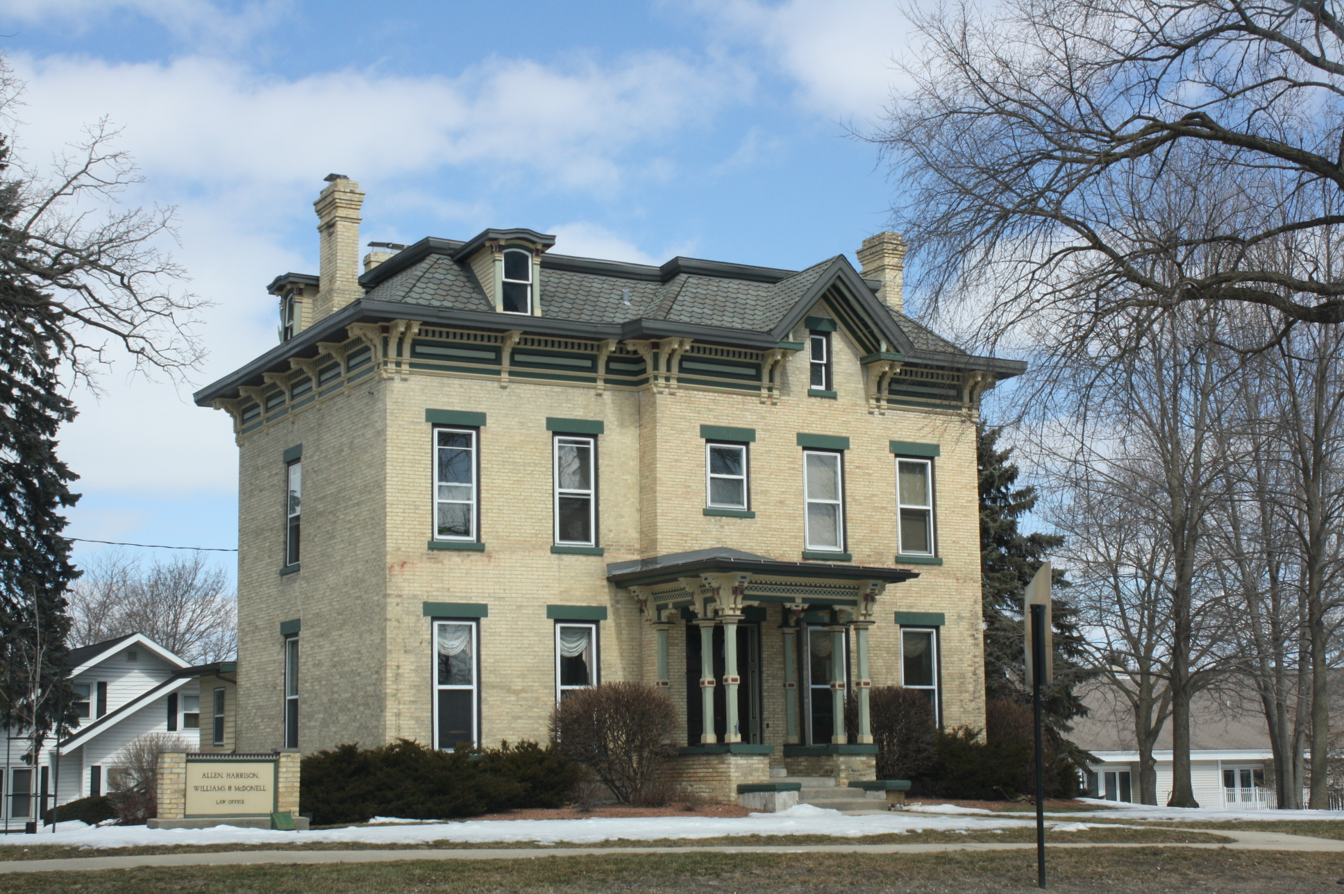 The Main Street Historic District, listed on the National Register of Historic Places.